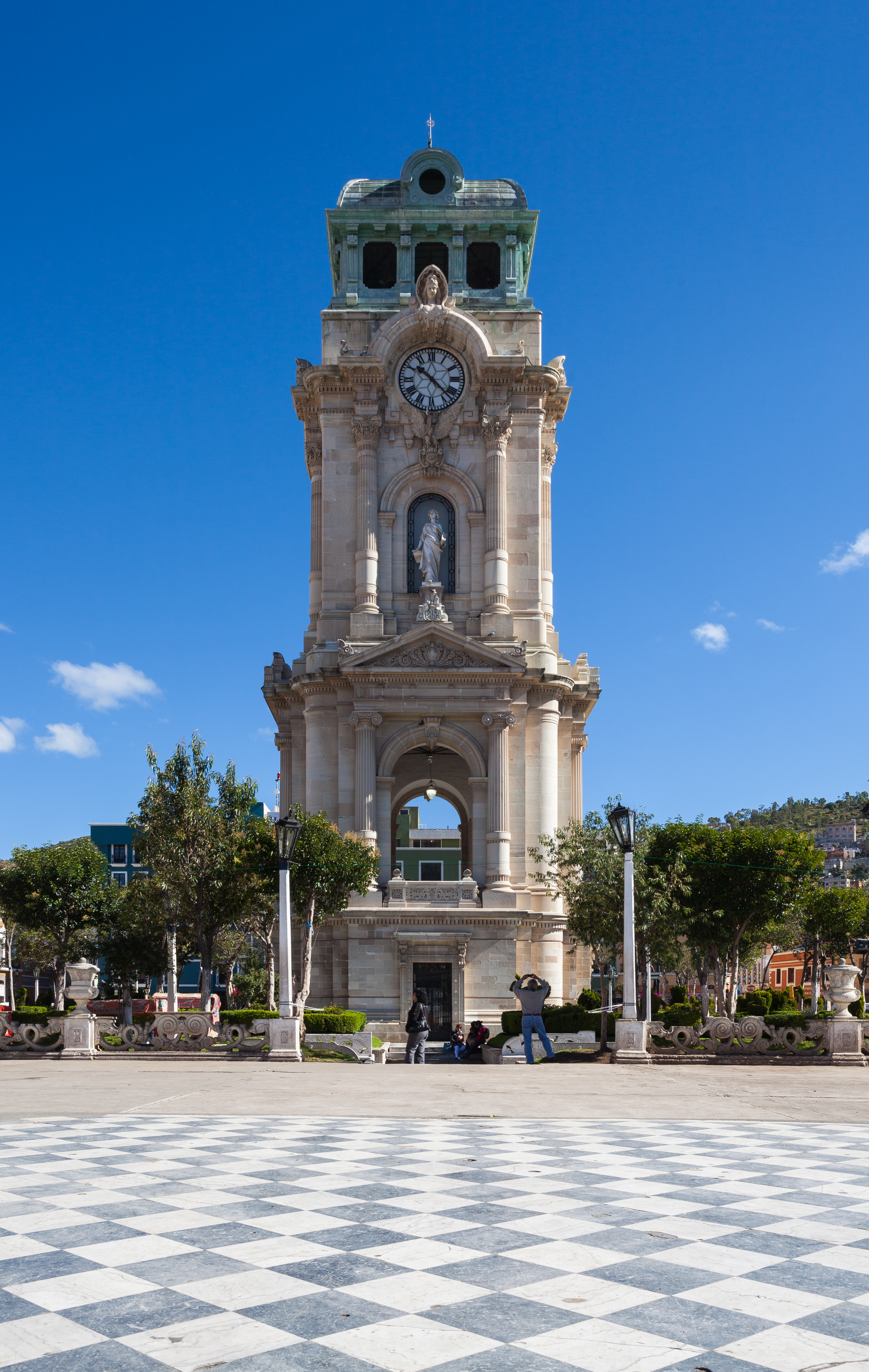 Monumental Clock, Pachuca, Hidalgo, Mexico